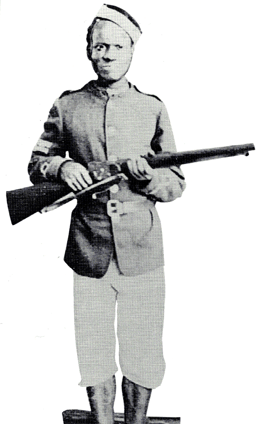 Natal Pioneer soldier 1878-1879